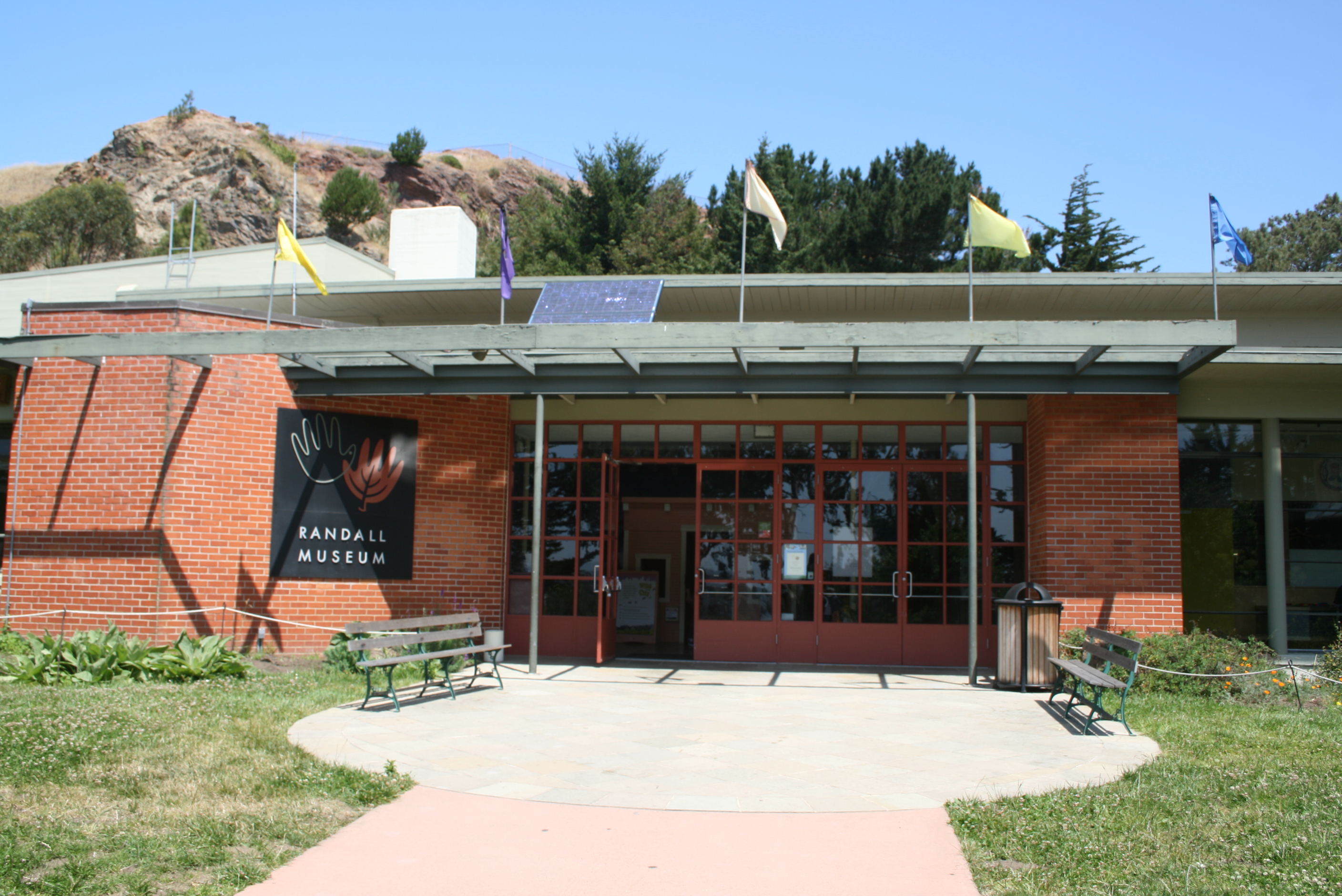 The Randall Museum in San Francisco, California focuses on natural history and environmental education.